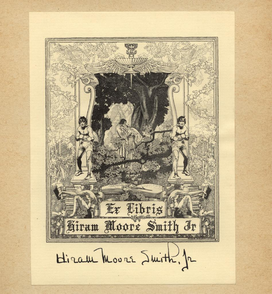 Pictorial Bookplate. Subjects: Men; Trees; Women; Books. Subject - Personal Name: Smith Jr., Hiram Moore